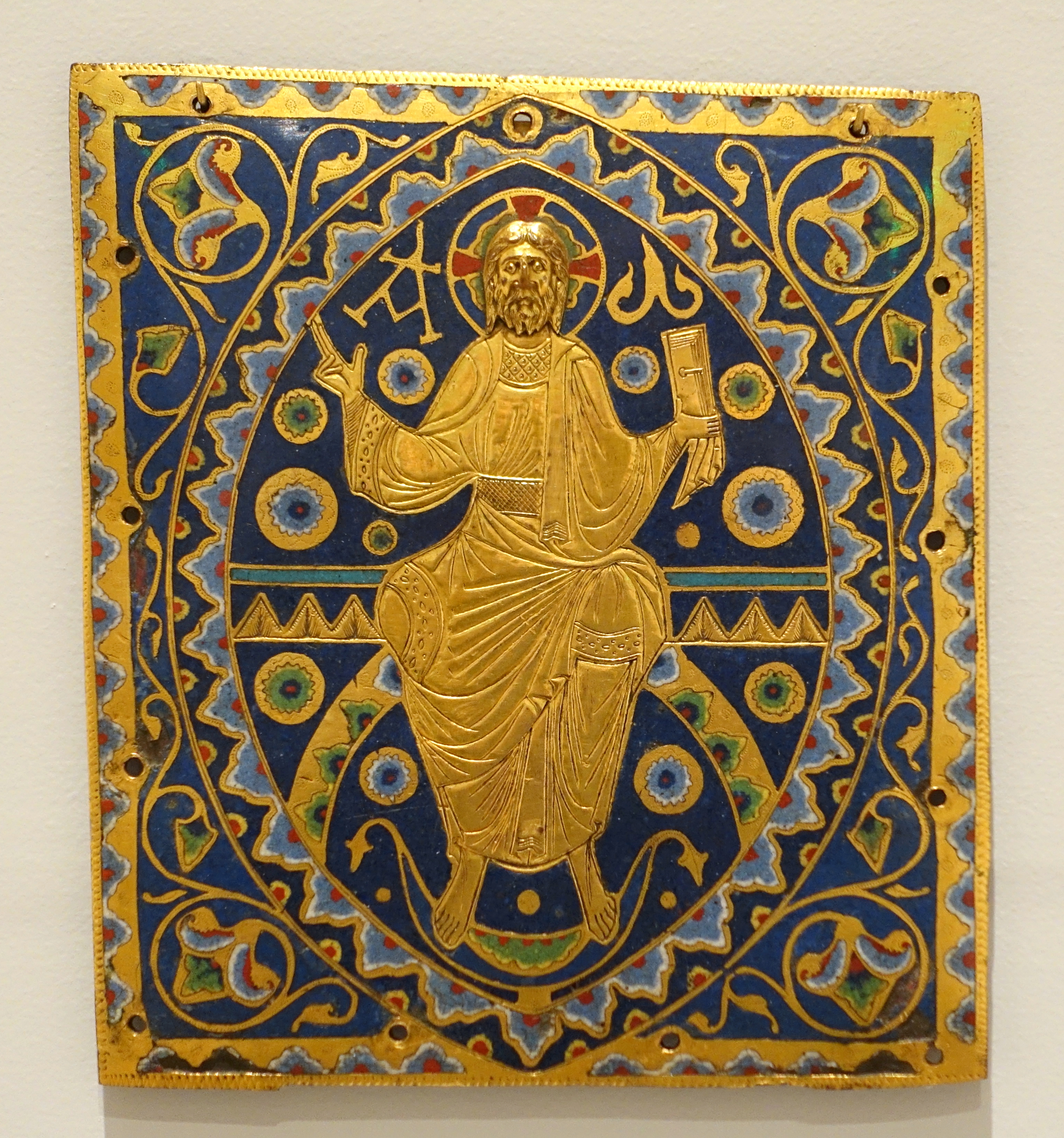 Exhibit in the Fogg Art Museum, Harvard University, Cambridge, Massachusetts, USA. This artwork is in the public domain because the artist died more than 70 years ago.